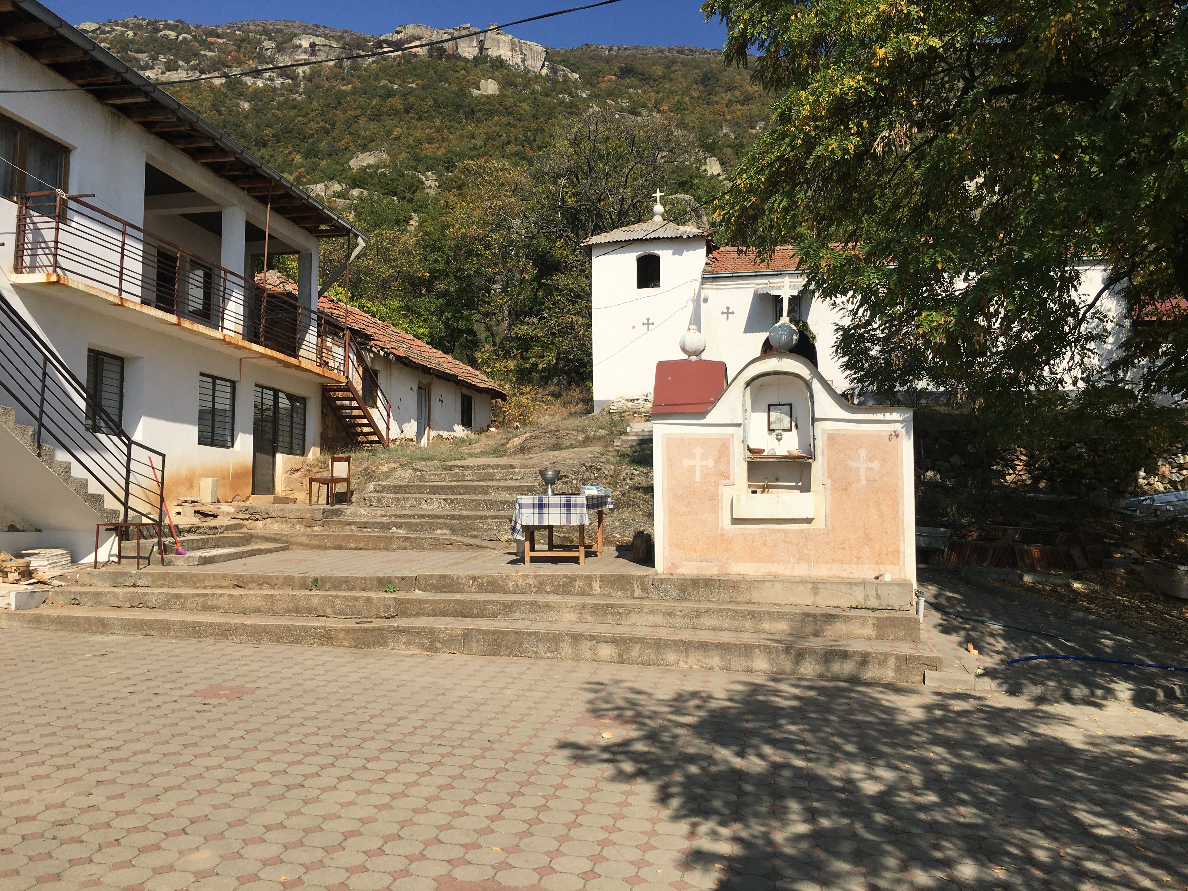 Drenovci Monastery's yard